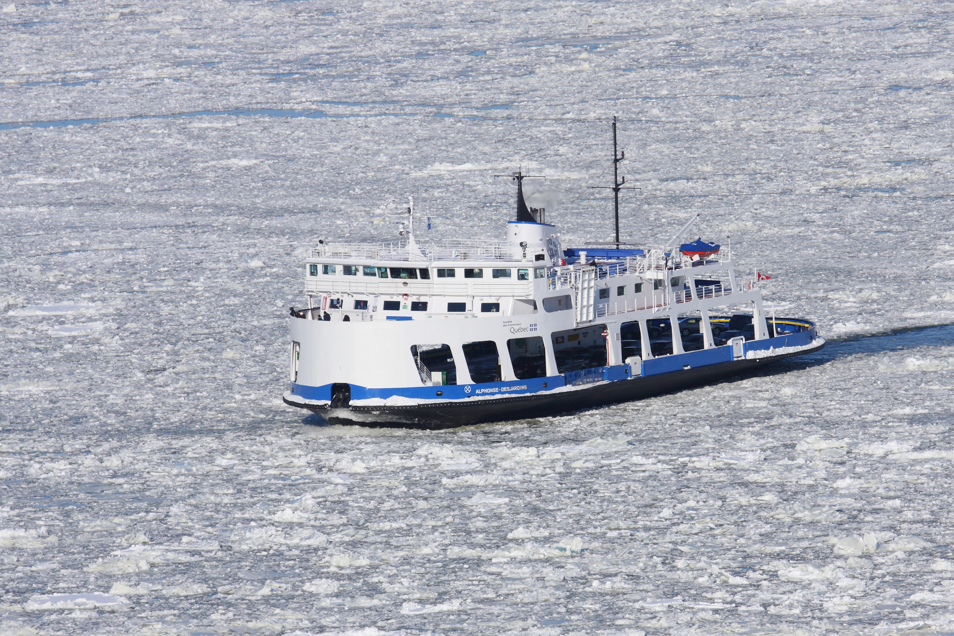 The NM Alphonse-Desjardins ferry crossing the Saint Lawrence River between Lévis and Quebec City.